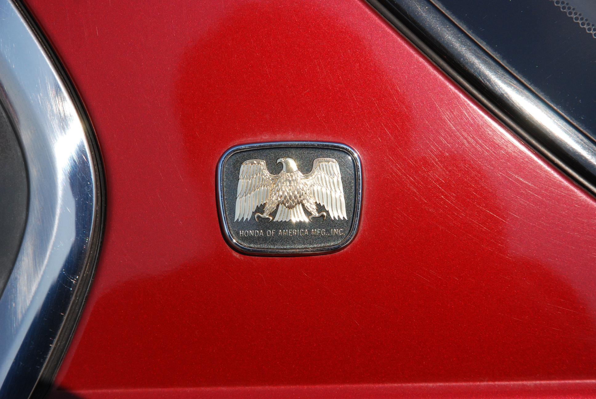 A Plate for US HONDA